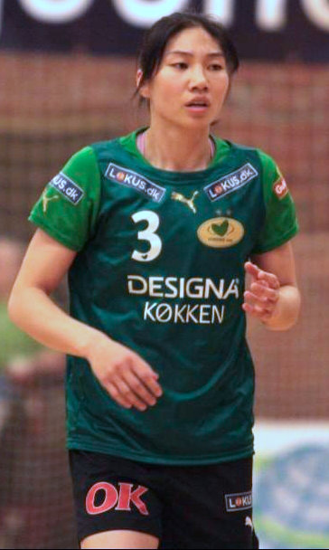 Chao Zhai, Chinese handball player, during a 2008/09 Danish Championship play off match between KIF Vejen and Viborg HK. The picture was taken on 25 April 2009.